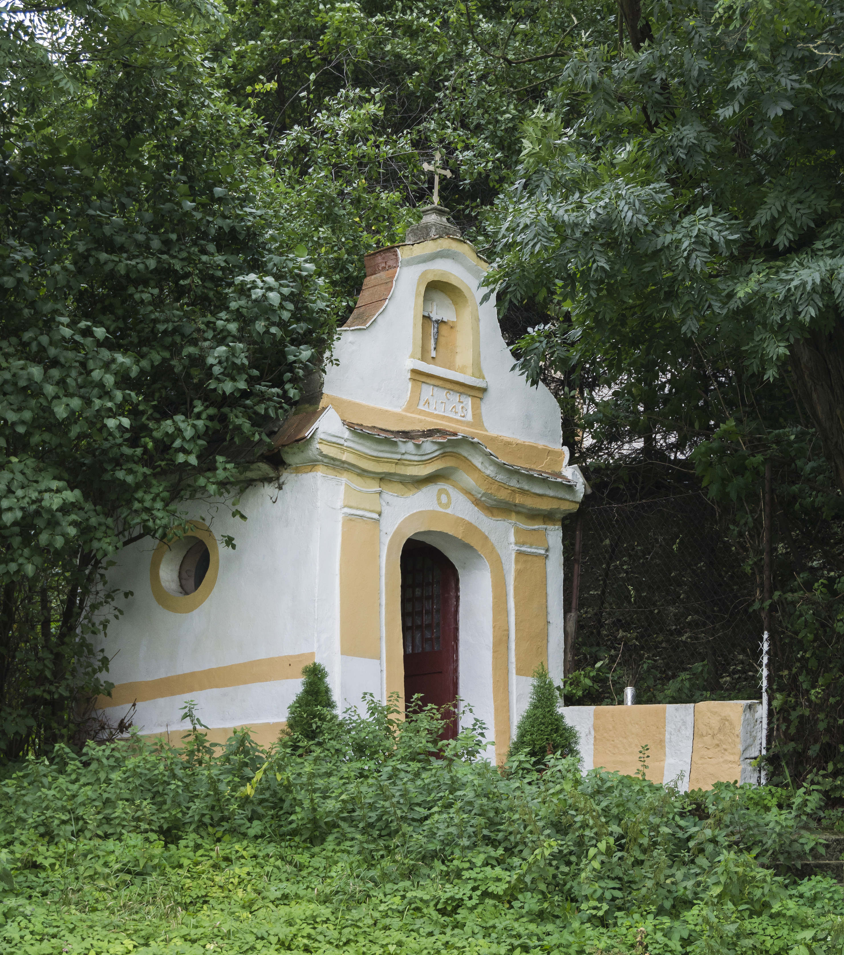 Chapel in Krosnowice